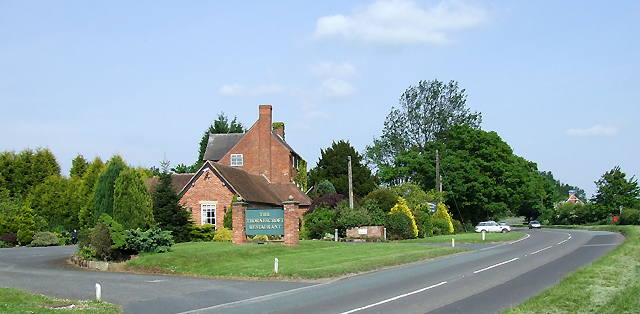 The Thornescroft Restaurant and A454 to Wolverhampton The restaurant is a favourite for small or large group functions.